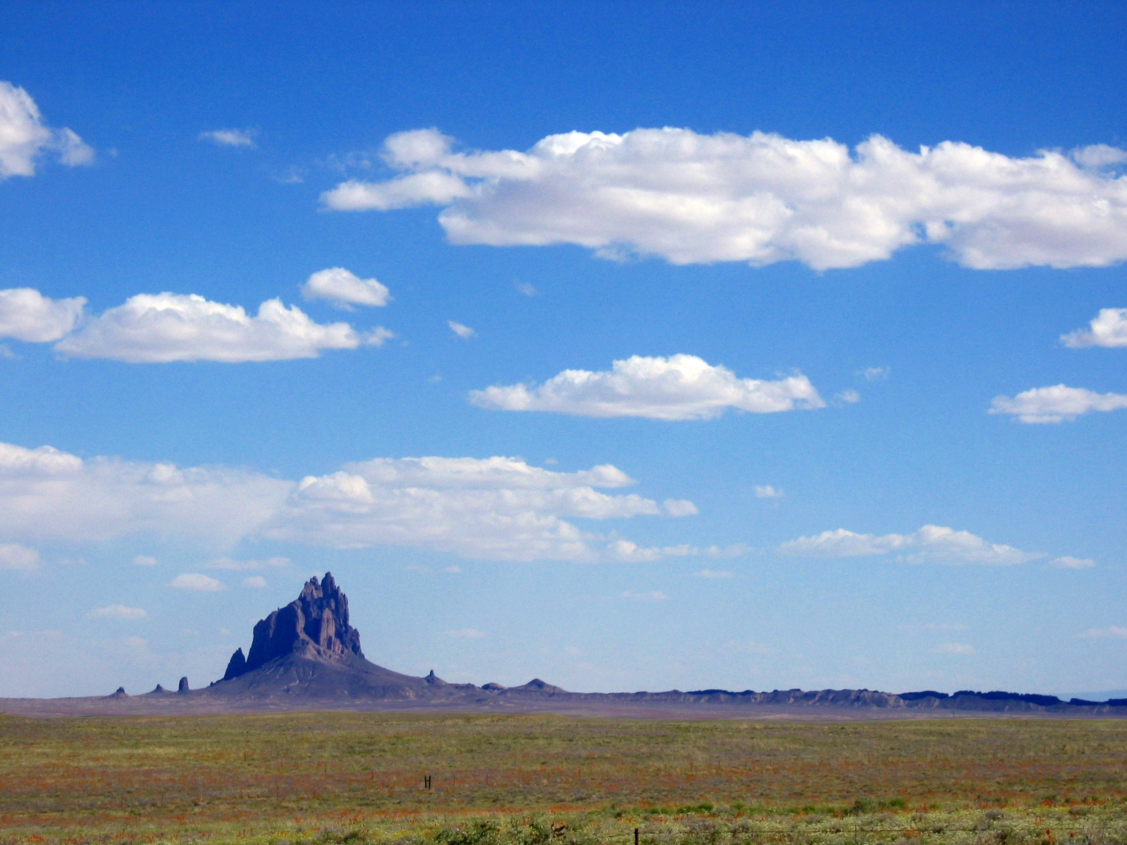 Shiprock as seen from a distance.